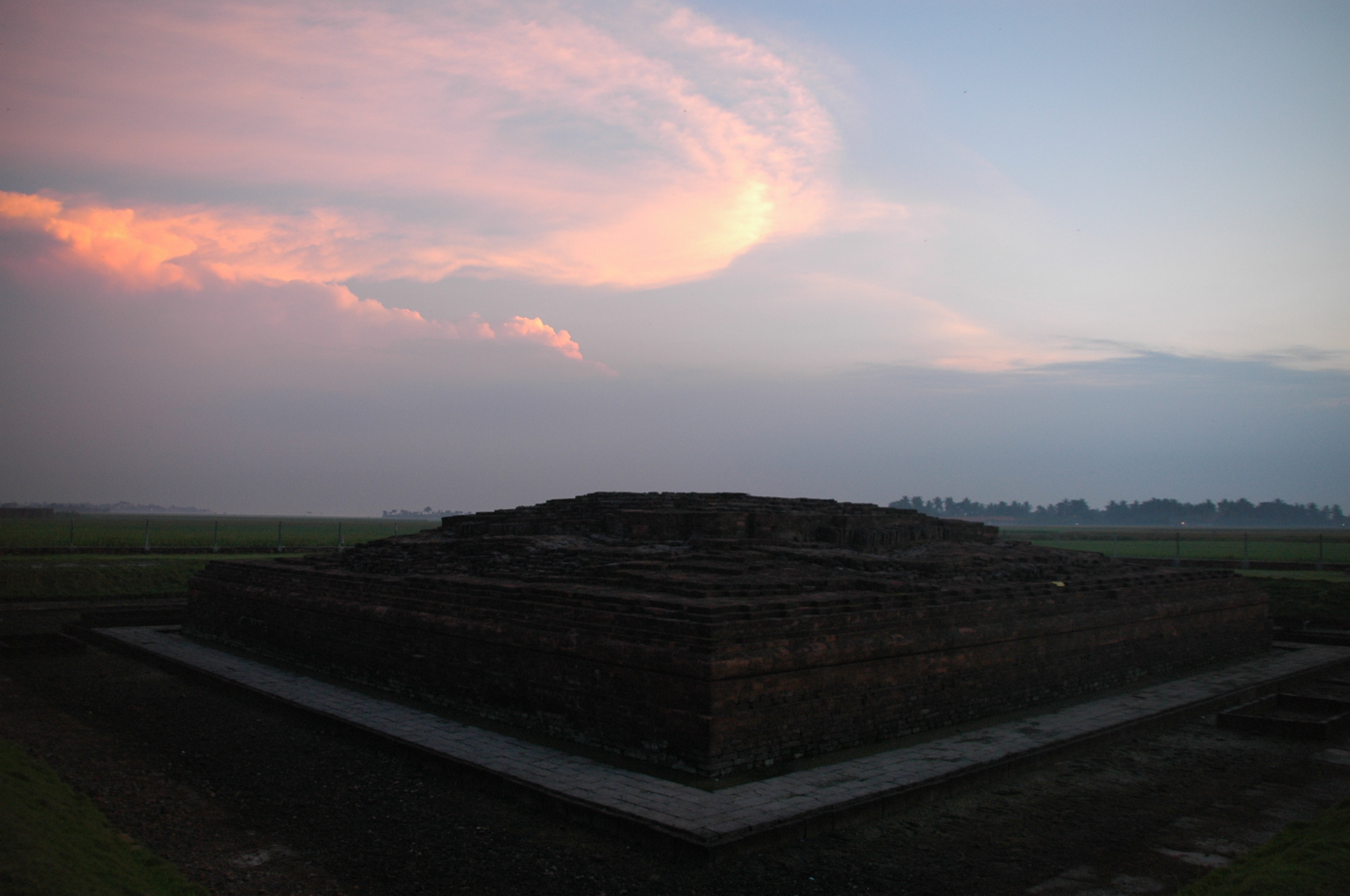 Jiwa temple at Batujaya archaeological complex, Karawang, West Java.